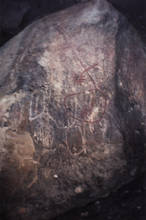 Photo taken of this rock art on our field reconnaissance, 1990, though the rock art design contained within, as captured, is Djungan people's cultural property Bruceanthro 12:39, 15 November 2007 (UTC)